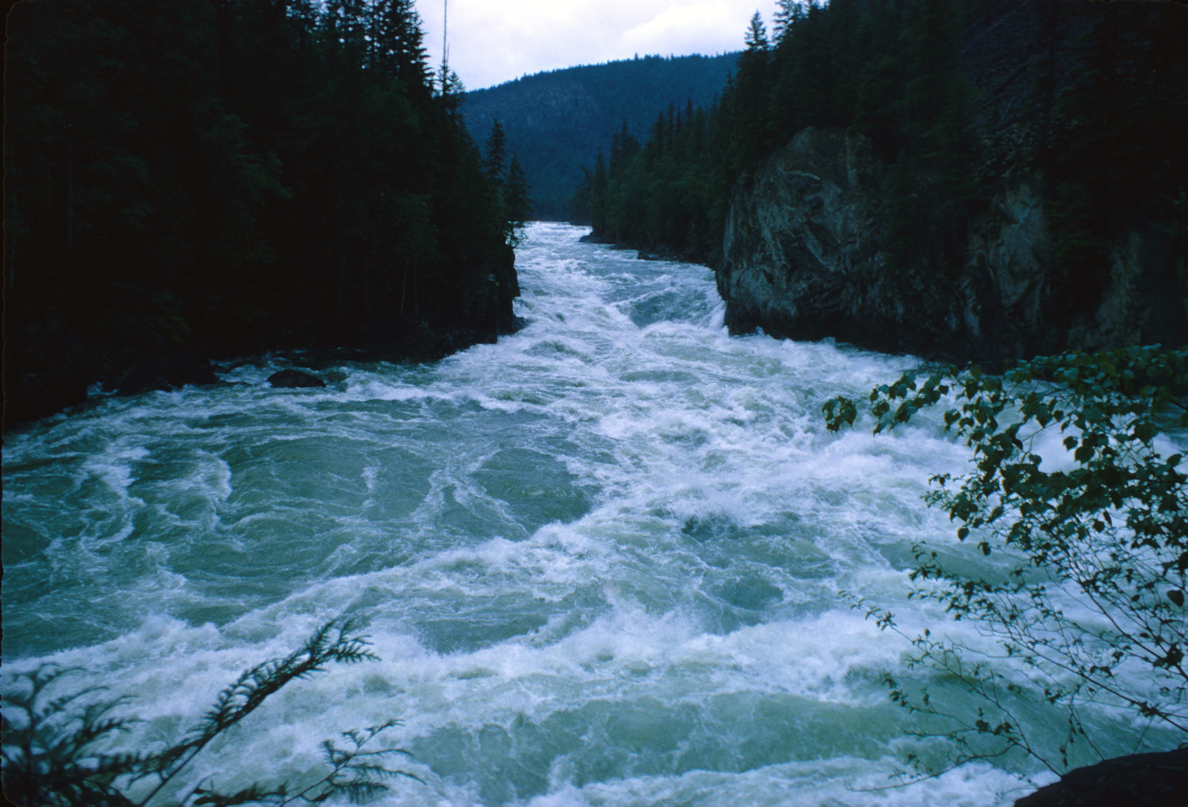 The Kettle in Granite Canyon, on the Clearwater River, British Columbia.